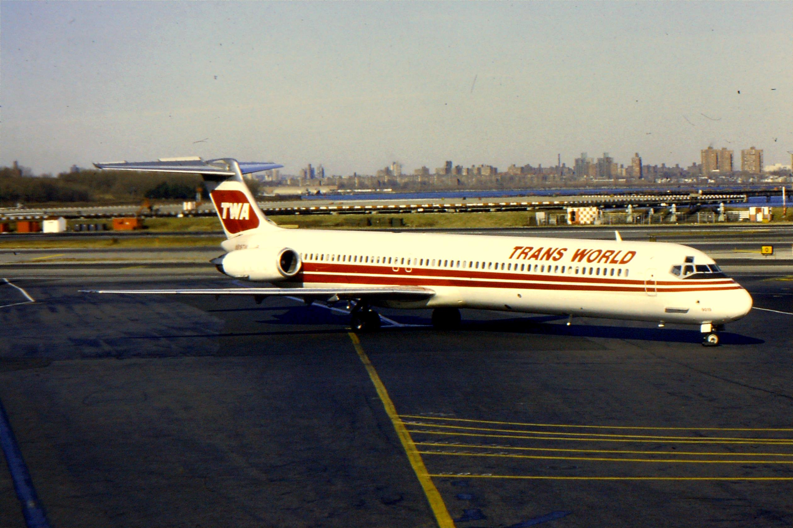 TWA MD-80 N919TW at LGA